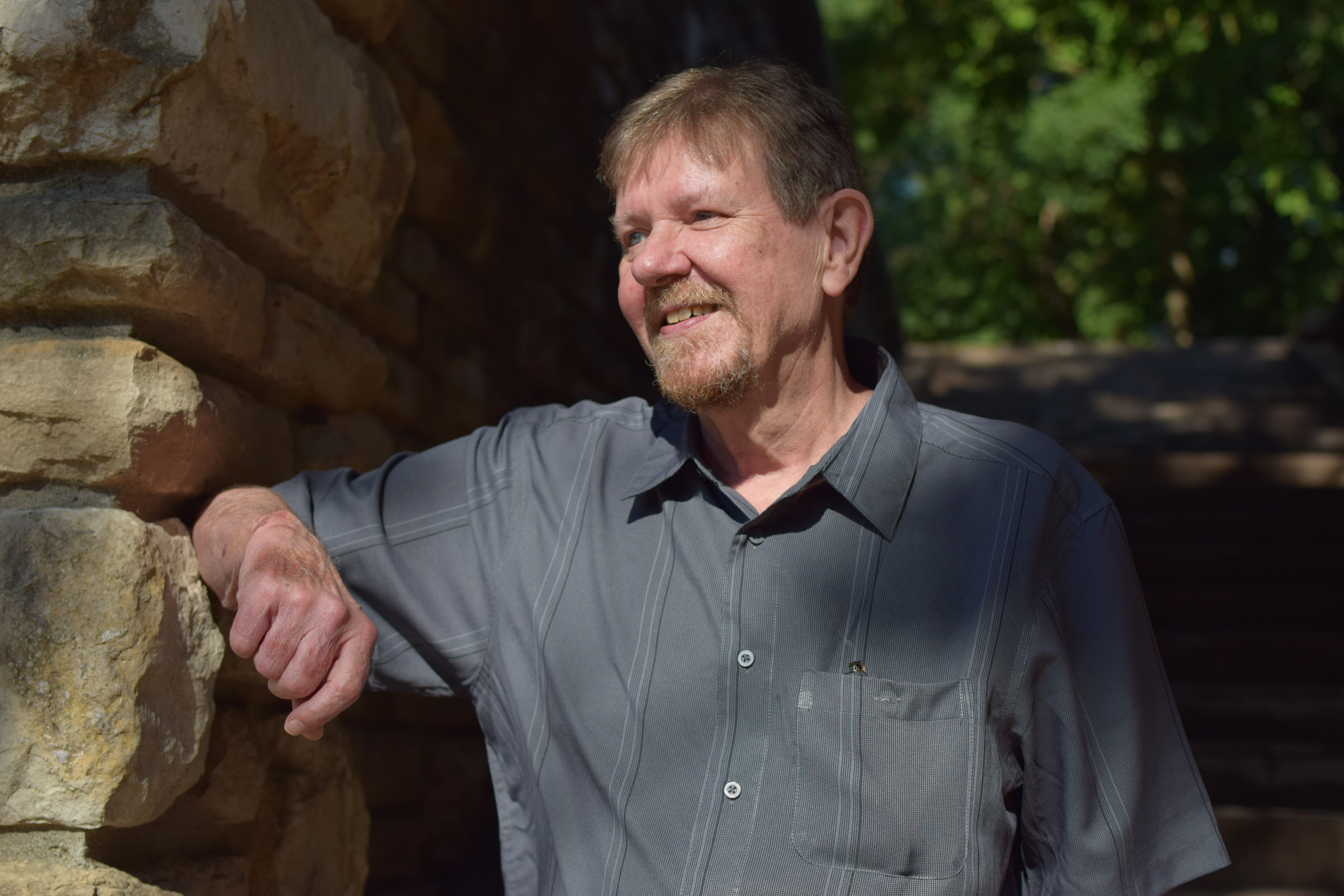 Peaceful Sunday